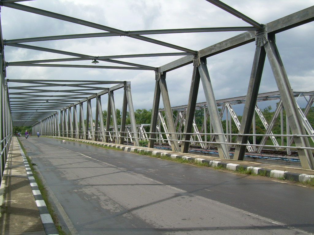 A Bridge on Bengawan Solo River in Bojonegoro, East Java, Indonesia. Taken by me. (Arifhidayat 13:38, 6 February 2007 (UTC))